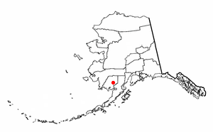 Adapted from Wikipedia's AK borough maps by Seth Ilys.